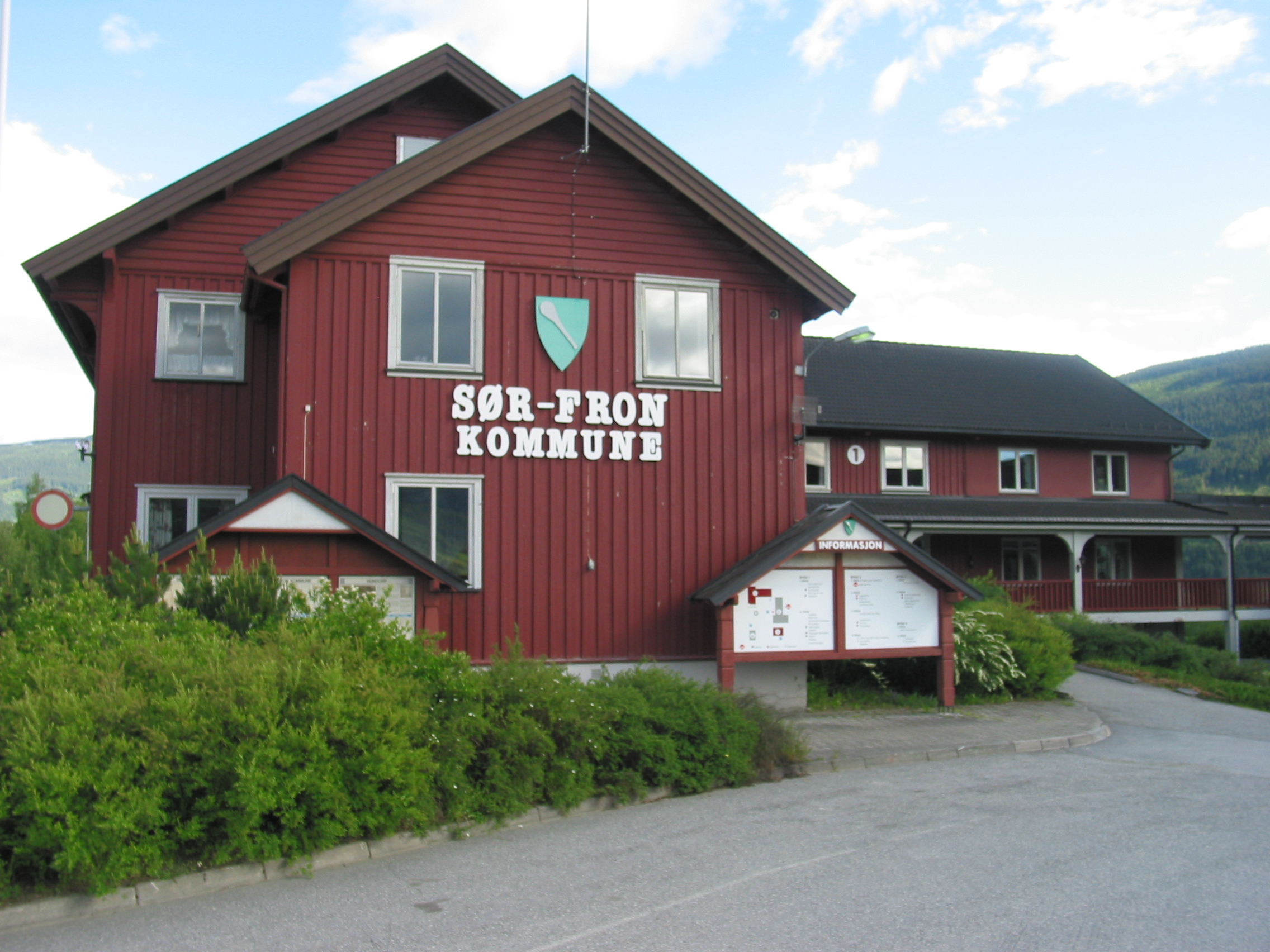 Sør-Fron town hall, in the village of Hundorp. June 2008.